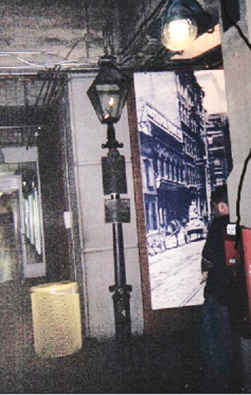 This Gas Lamp, located in Atlanta's Underground, was 1 of 50 erected by the Atlanta Gas Light Company in 1856. It was shelled by Union artillery prior to the Battle of Atlanta of the American Civil War. Solomon (Sam) Luckie, 1 of 40 free blacks in Atlanta, was leaning against this lamp talking with a group of white businessmen when a cannon shell wounded him. The businessmen carried him to their local surgeon where he died from his wounds. Sam had owned the Barber and Bath Salon, in the nearby Atlanta Hotel. Luckie Street was named for him. The Gas Lamp was relighted during the premier of Gone With the Wind in 1939. There are two bronze plaques mounted on it. It simultaneously commemorates Solomon (Sam) Luckie, the Confederacy, the Battle of East Atlanta, and one of the local men who fought in that battle. [1]